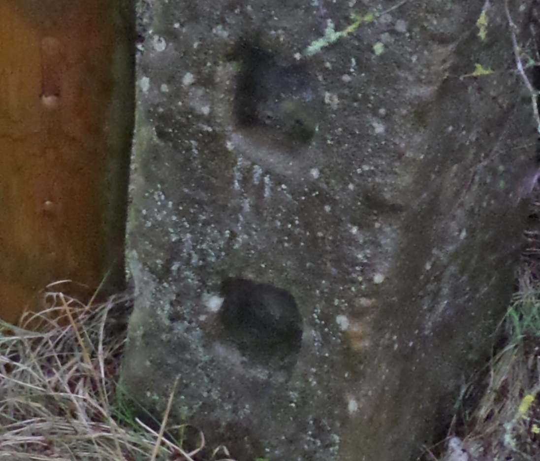 Detail of sockets on two sided sandstone Slip Gate pier, East Kittochside, East Kilbride, Scotland.